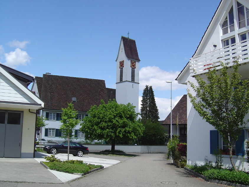 Roman Catholic church St. Agatha in Zeiningen